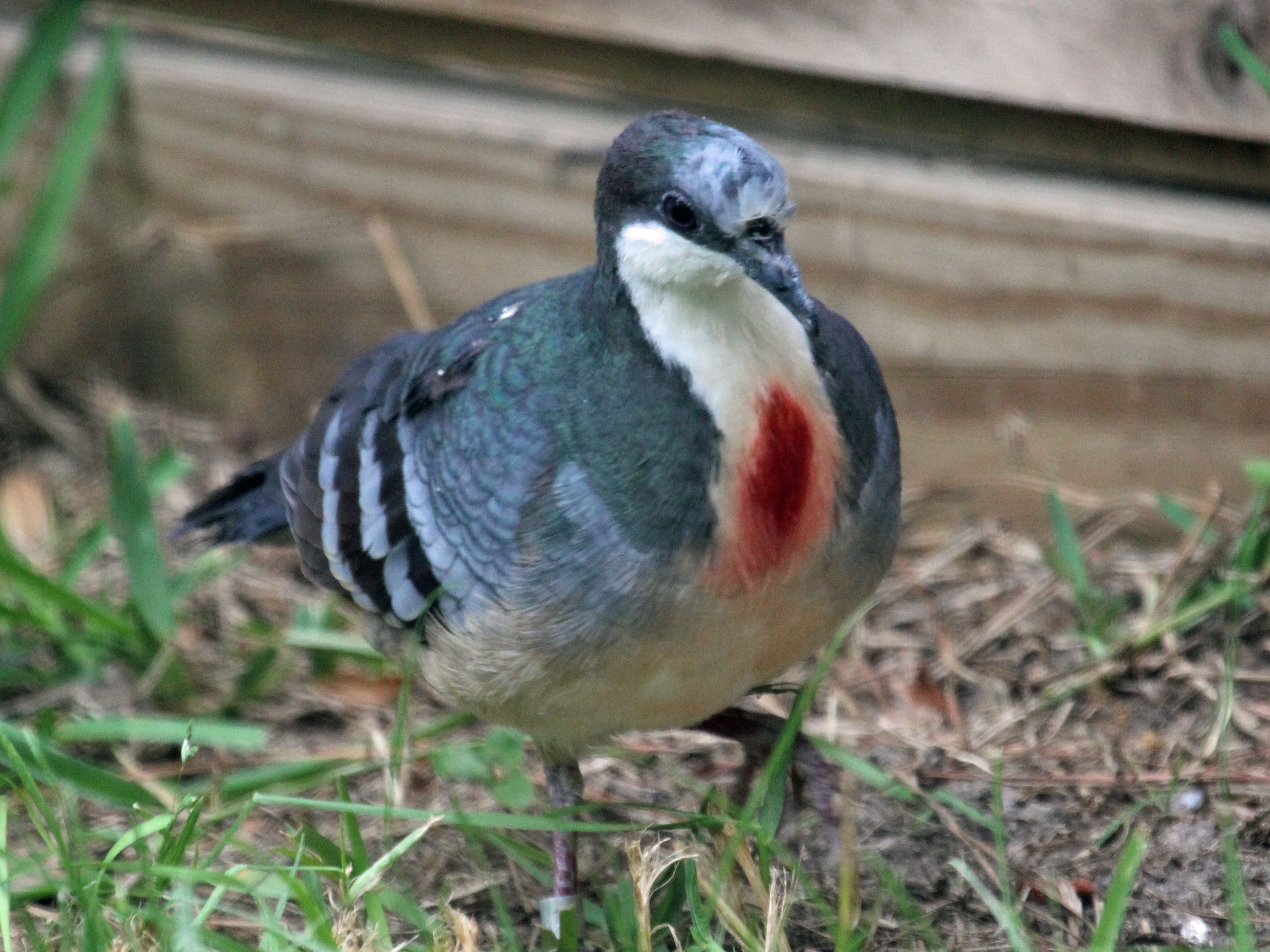 Luzon Bleeding-heart (Gallicolumba luzonica) - Sylvan Heights Waterfowl Park, North Carolina